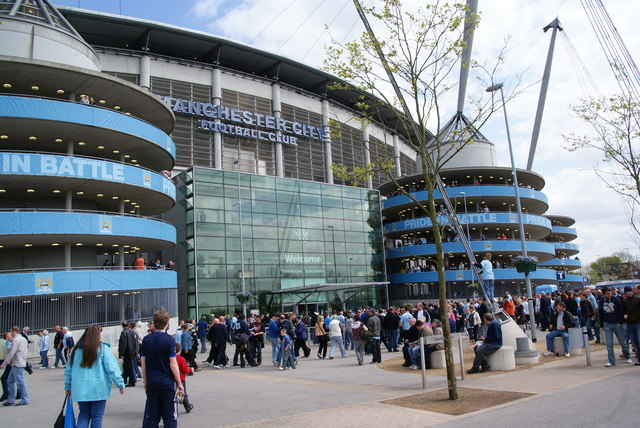 City of Manchester Stadium This is the players' entrance, where fans naturally gather before a match.